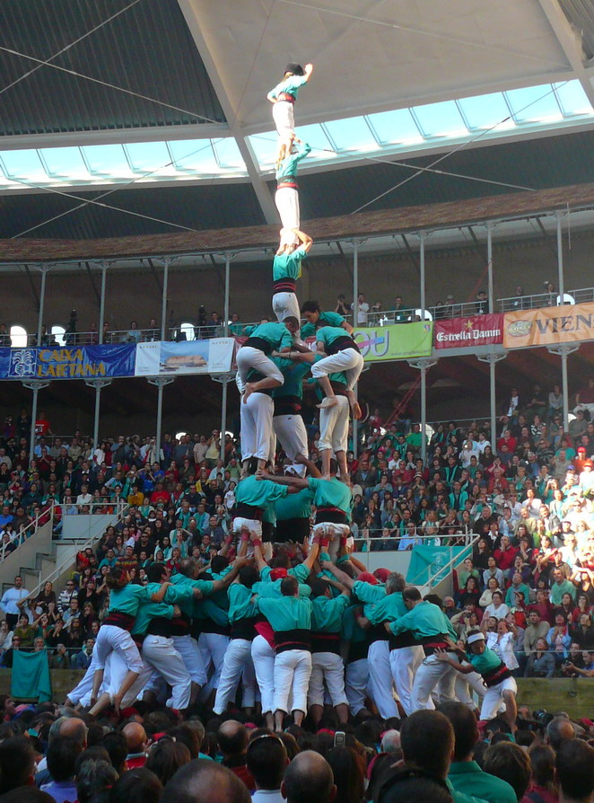 Quatre de nou amb folre i agulla